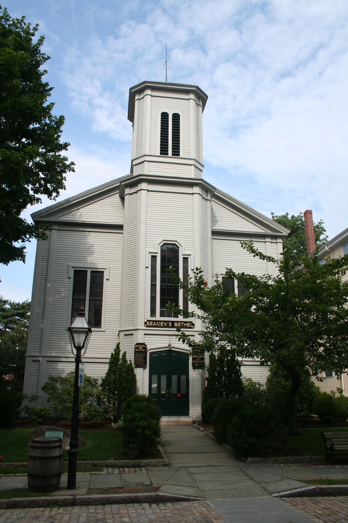 Photograph of the exterior of the Seamen's Bethel in the New Bedford Whaling National Historical Park in New Bedford, Massachusetts, United States of America taken by Rolf Müller.